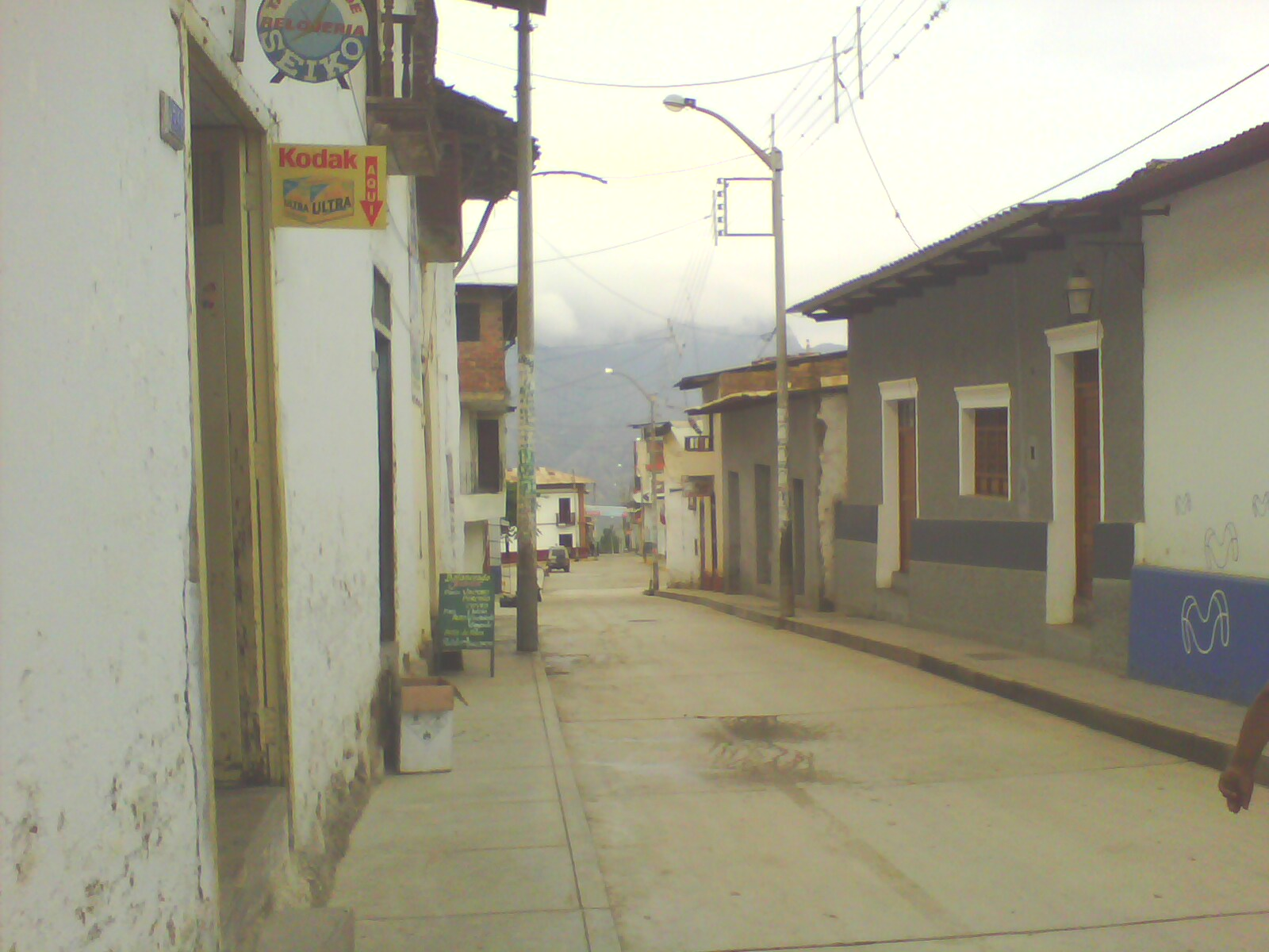 Jr. Progreso que una a la plaza de armas junto a su lado izquierdo con la Jr. San Martin.